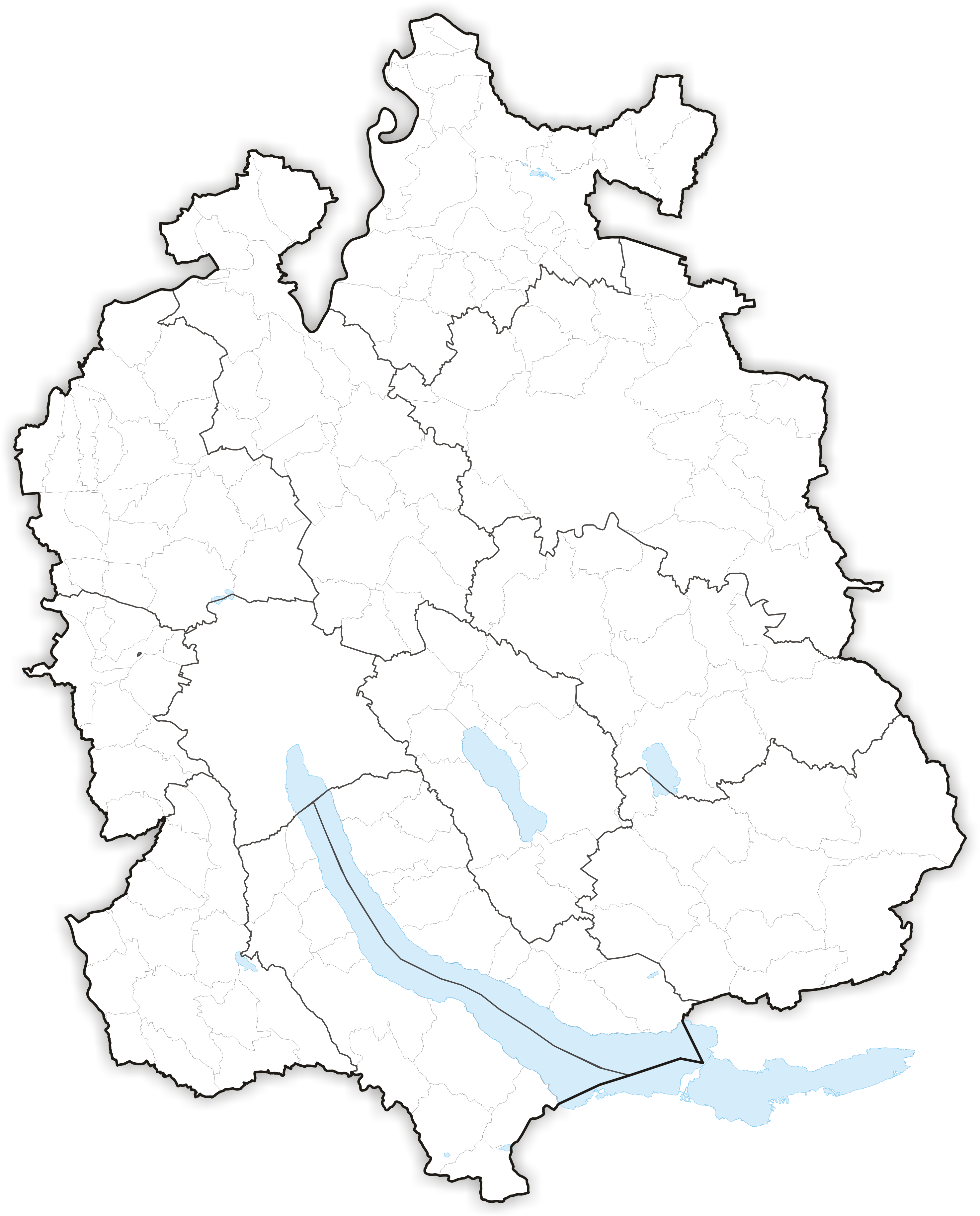 Municipalities in Canton Zürich